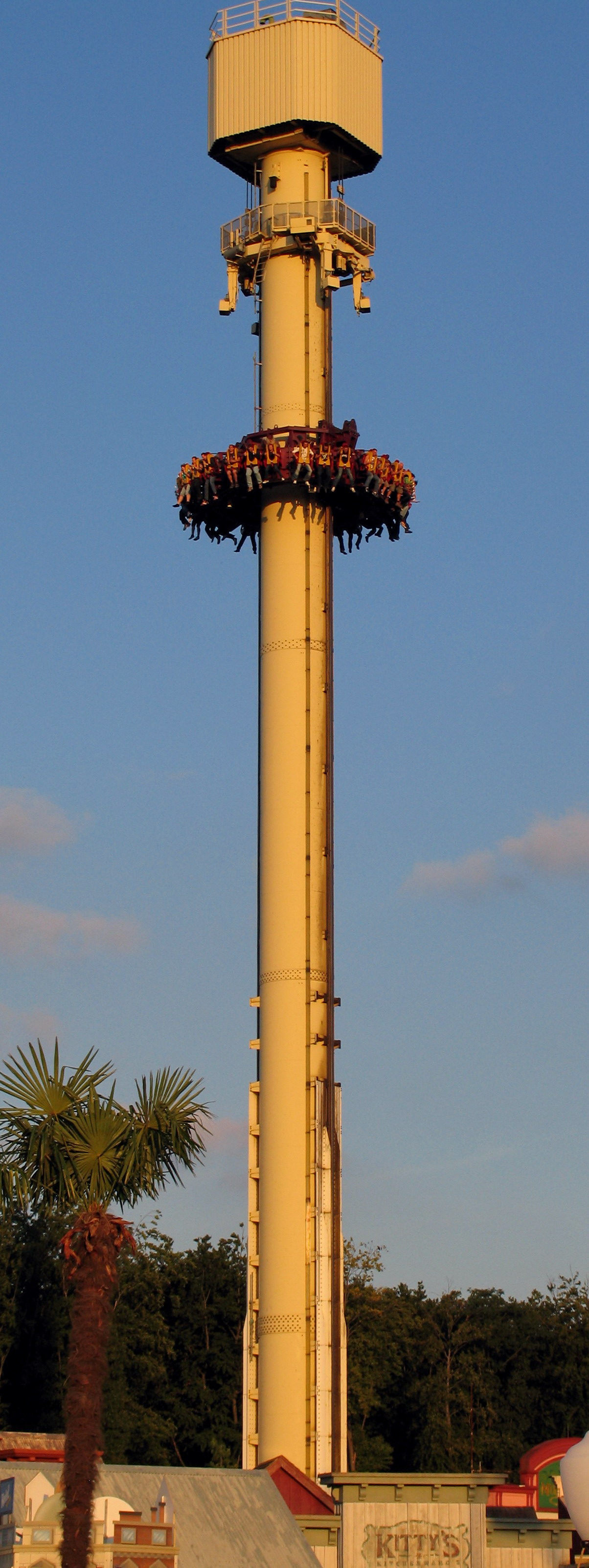 Freefall Tower High Fall at Movie Park Germany